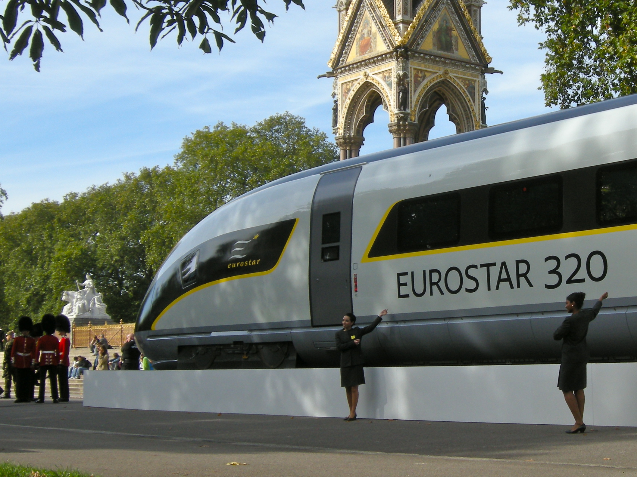 "Eurostar 320"-branded Siemens Velaro train at its press launch in London